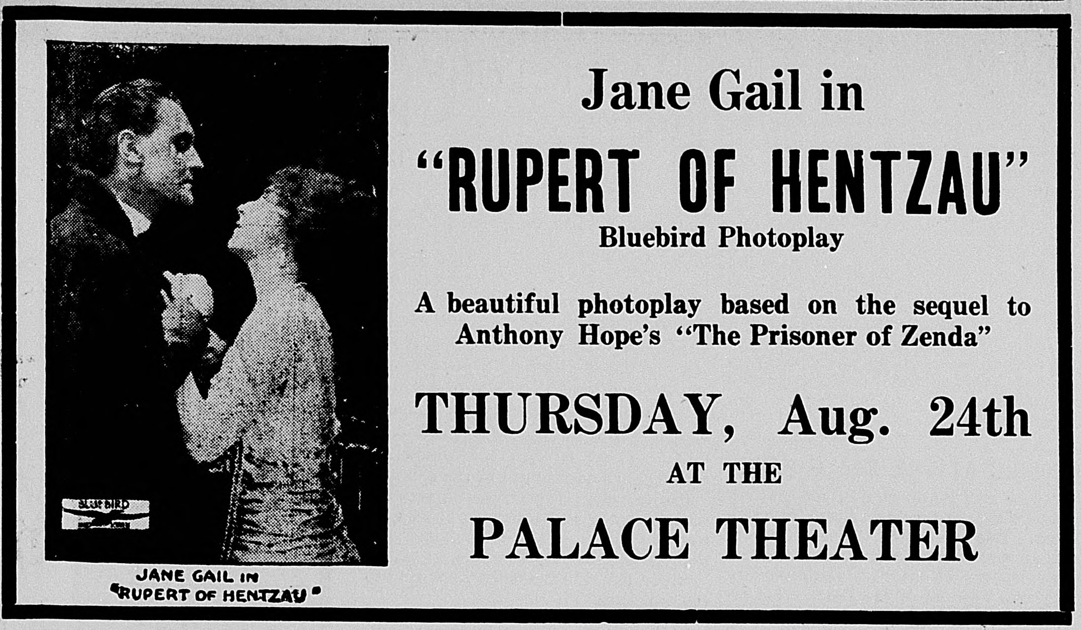 Rupert of Hentzau newspaper advertisement